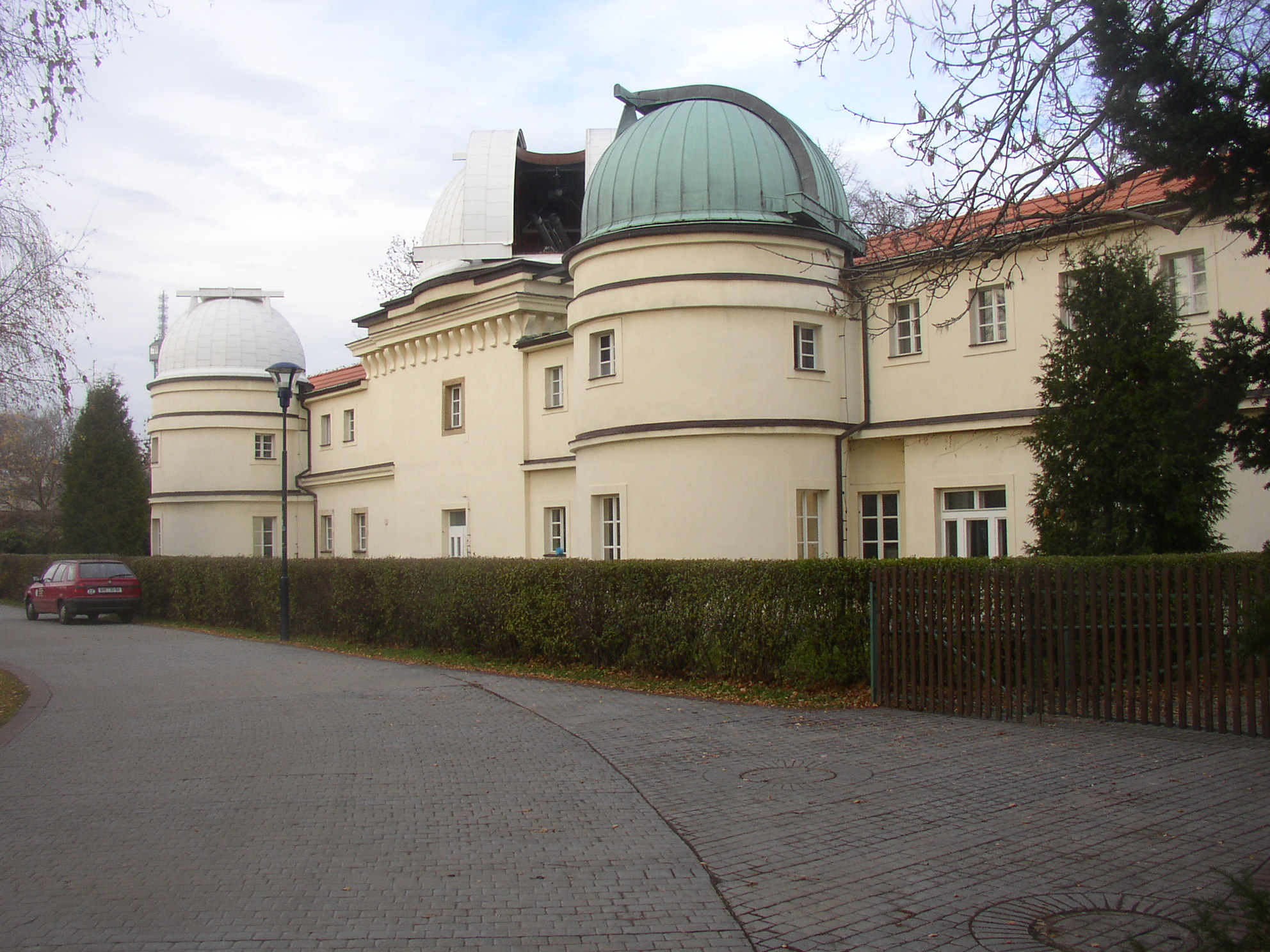 Štefánik´s Observatory in Prague, Czech Republic.